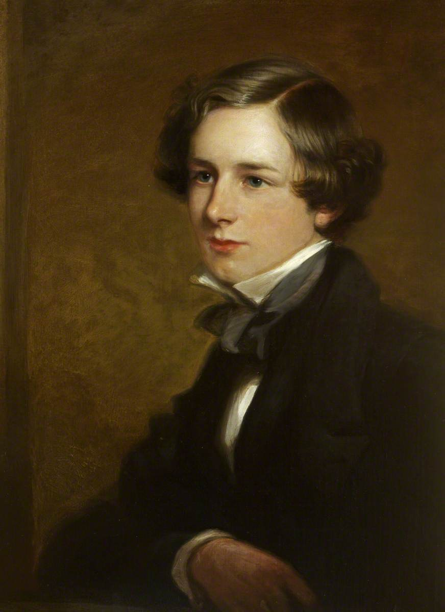 British (English) School; Charles Rodney Morgan (1828-1854), MP; National Trust, Tredegar House